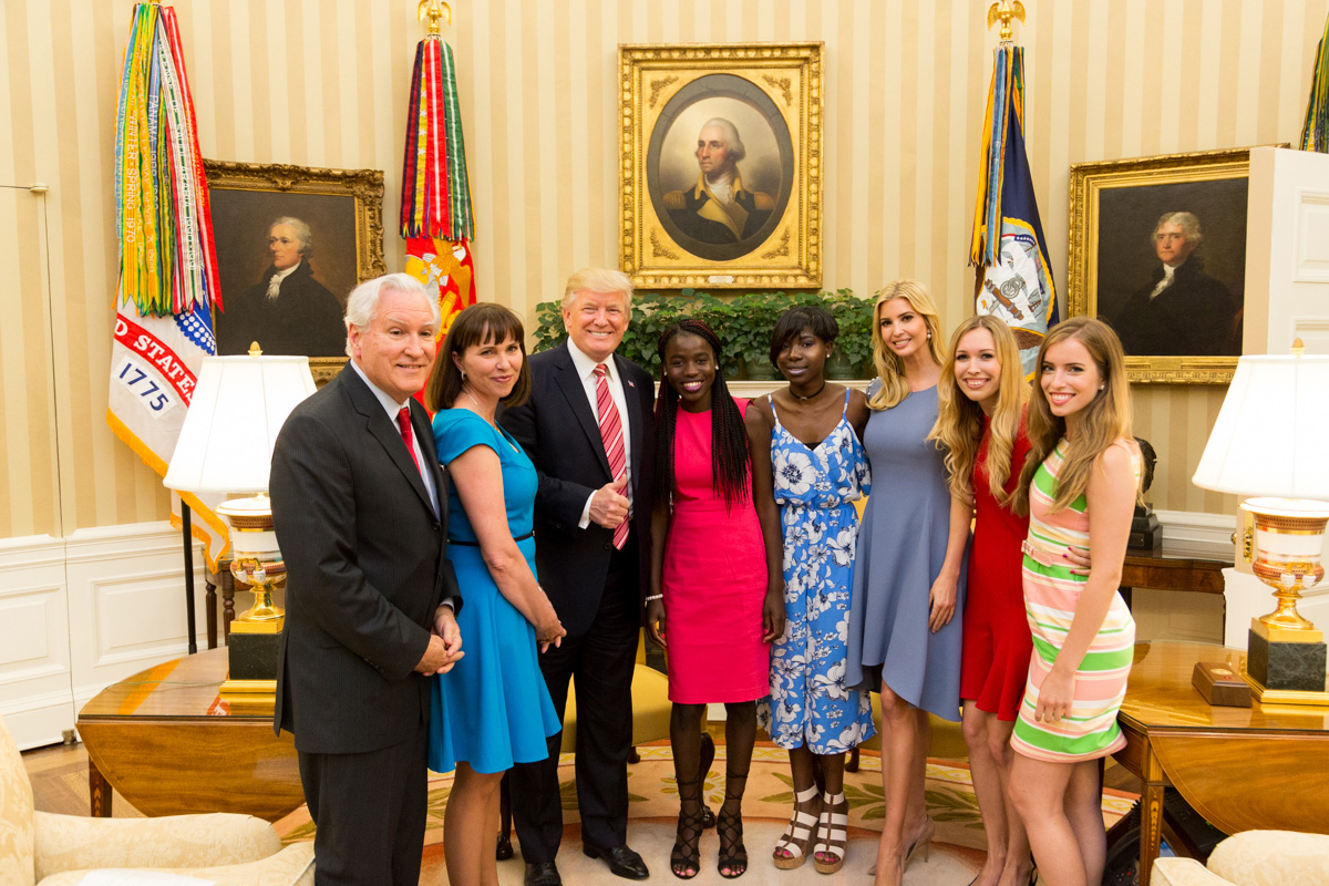 President Donald J. Trump, Ivanka Trump, and Chibok schoolgirls Joy Bishara and Lydia Pogu, June 27, 2017 (Official White House Photo by Shealah Craighead)